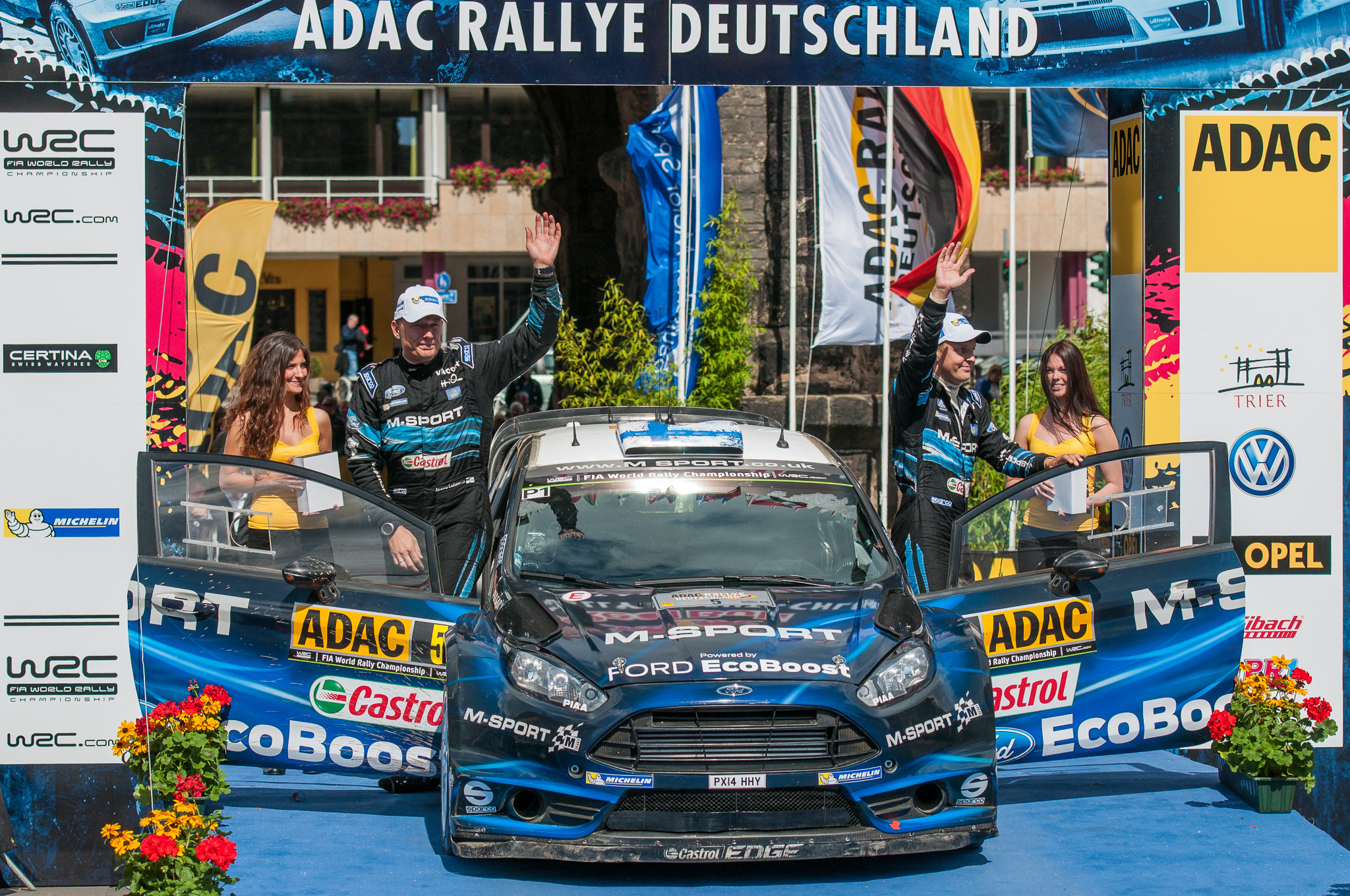 ADAC Rallye Deutschland 2014,FIA,FIA World Rally Championship,Ford Fiesta RS WRC,Jarmo Lehtinen,M-Sport WRT,M-Sport World Rally Team,Mikko Hirvonen,Motorsport,Rally,Rallye,Siegerehrung,WRC